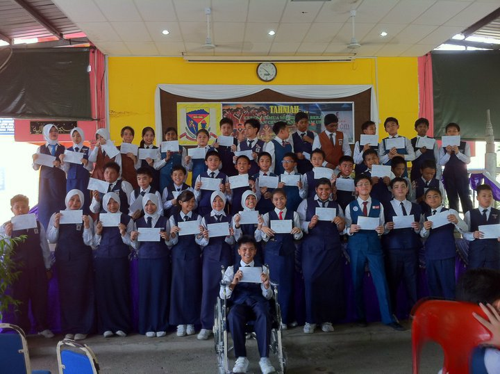 43 students that get 5A in UPSR 2010